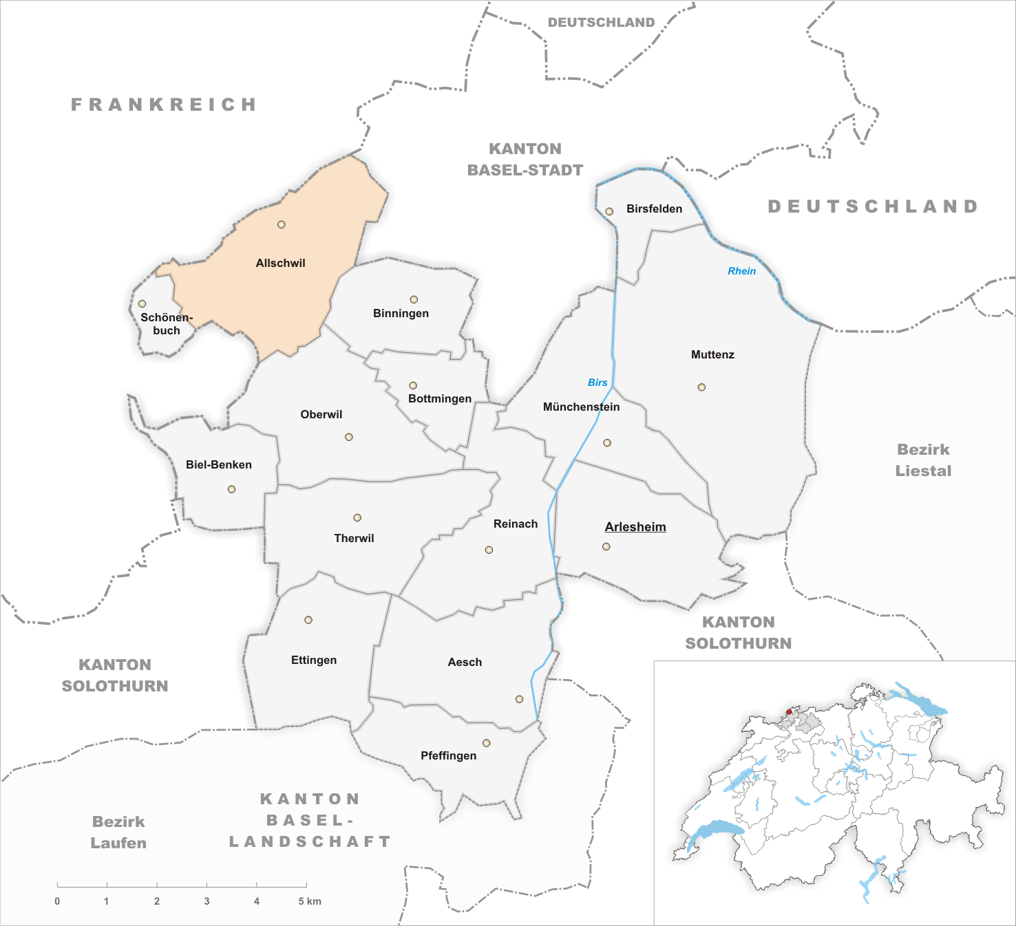 Municipality Allschwil